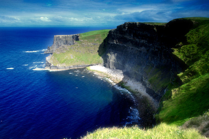 Cliffs of Moher, County Clare, Ireland